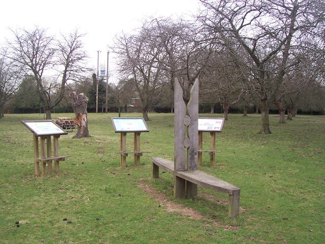 Sculpture in Park Farm Community Cherry Orchard Sculpture designed and created by Will Glanfield with assistance of pupils of Lynsted Primary School. A public footpath goes though the orchard to The Street, Lynsted.